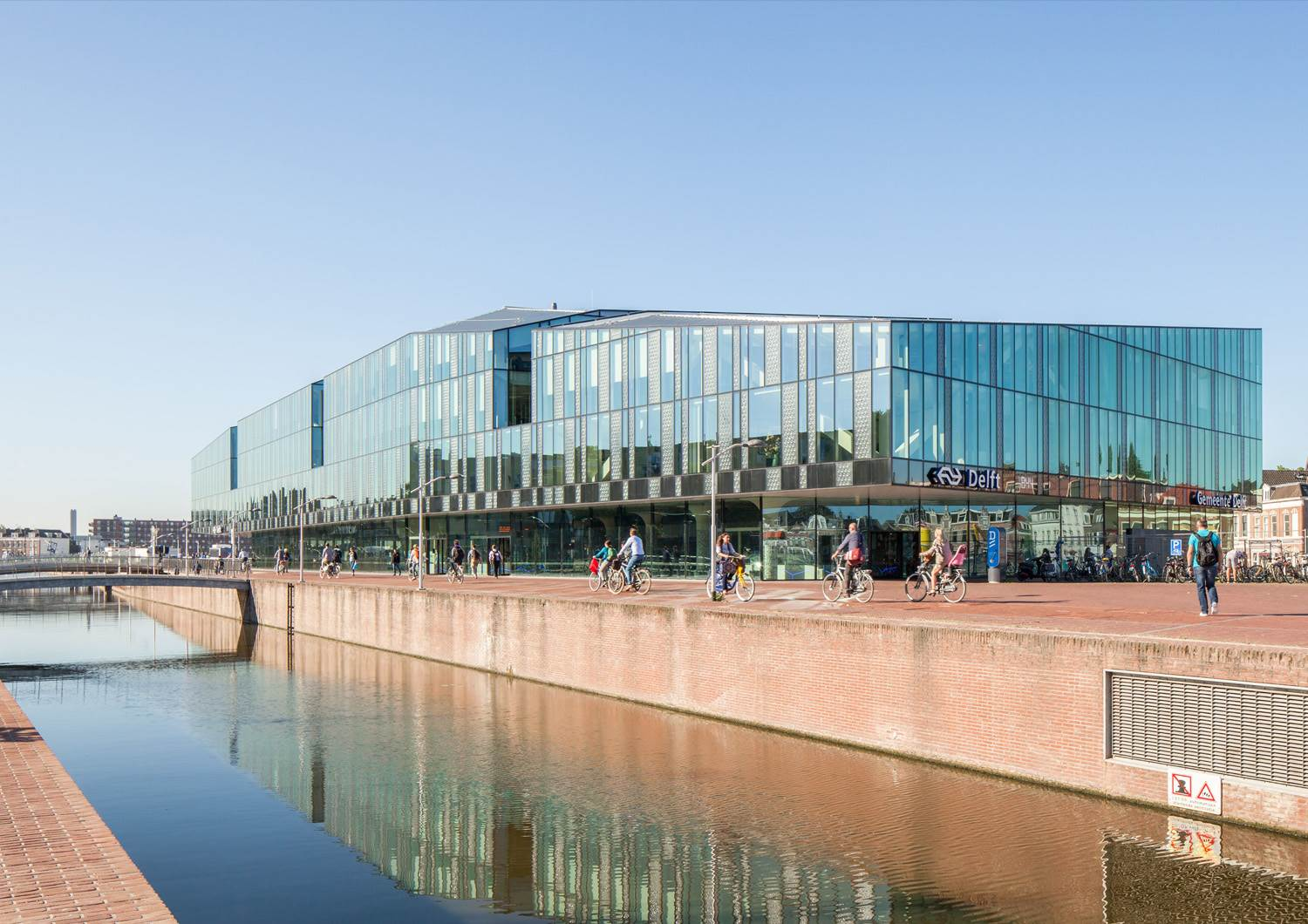 Delft City Hall and Train Station, Netherlands